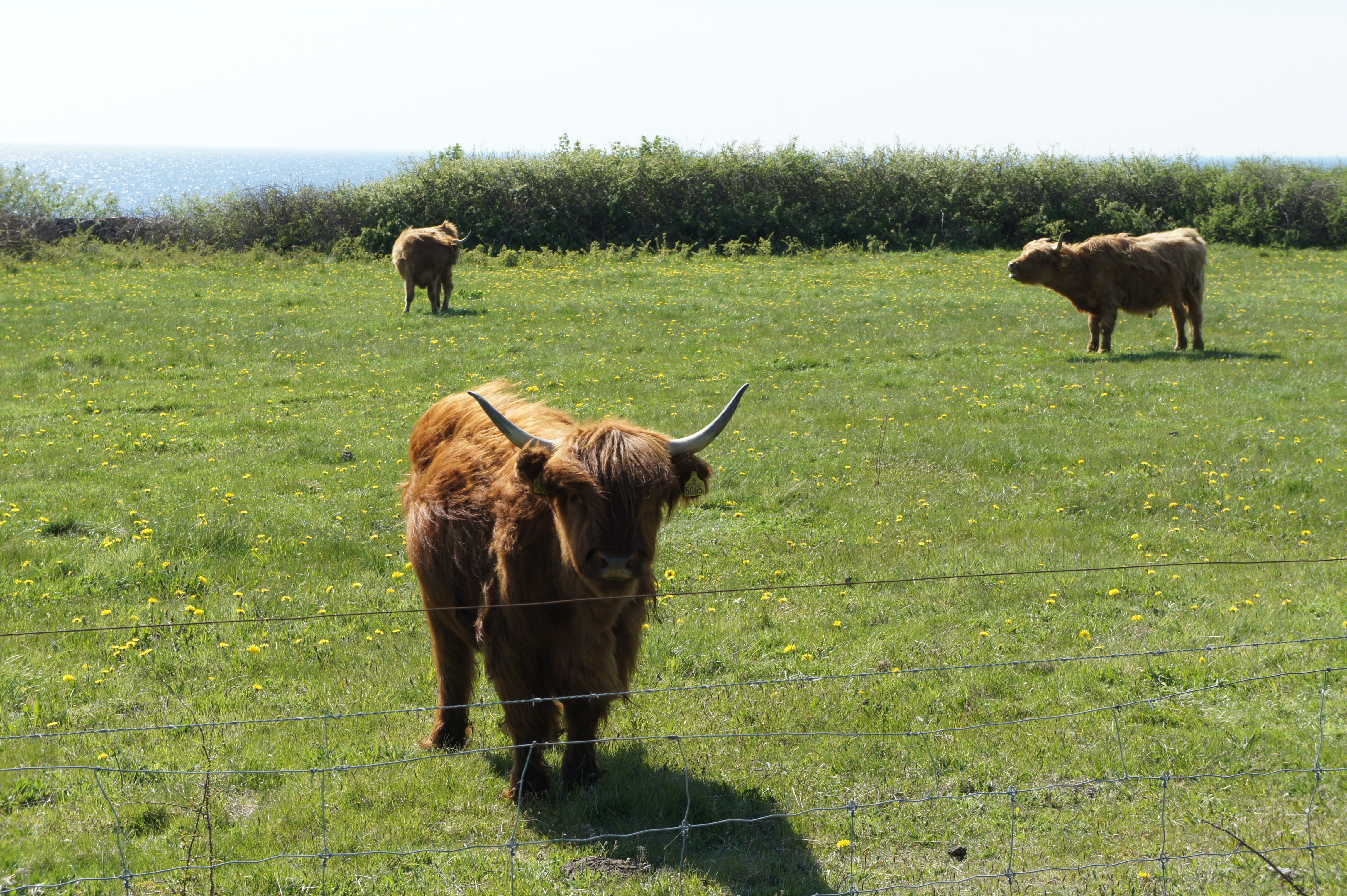 From the nature reserve Mölle fälad, Scania, Sweden